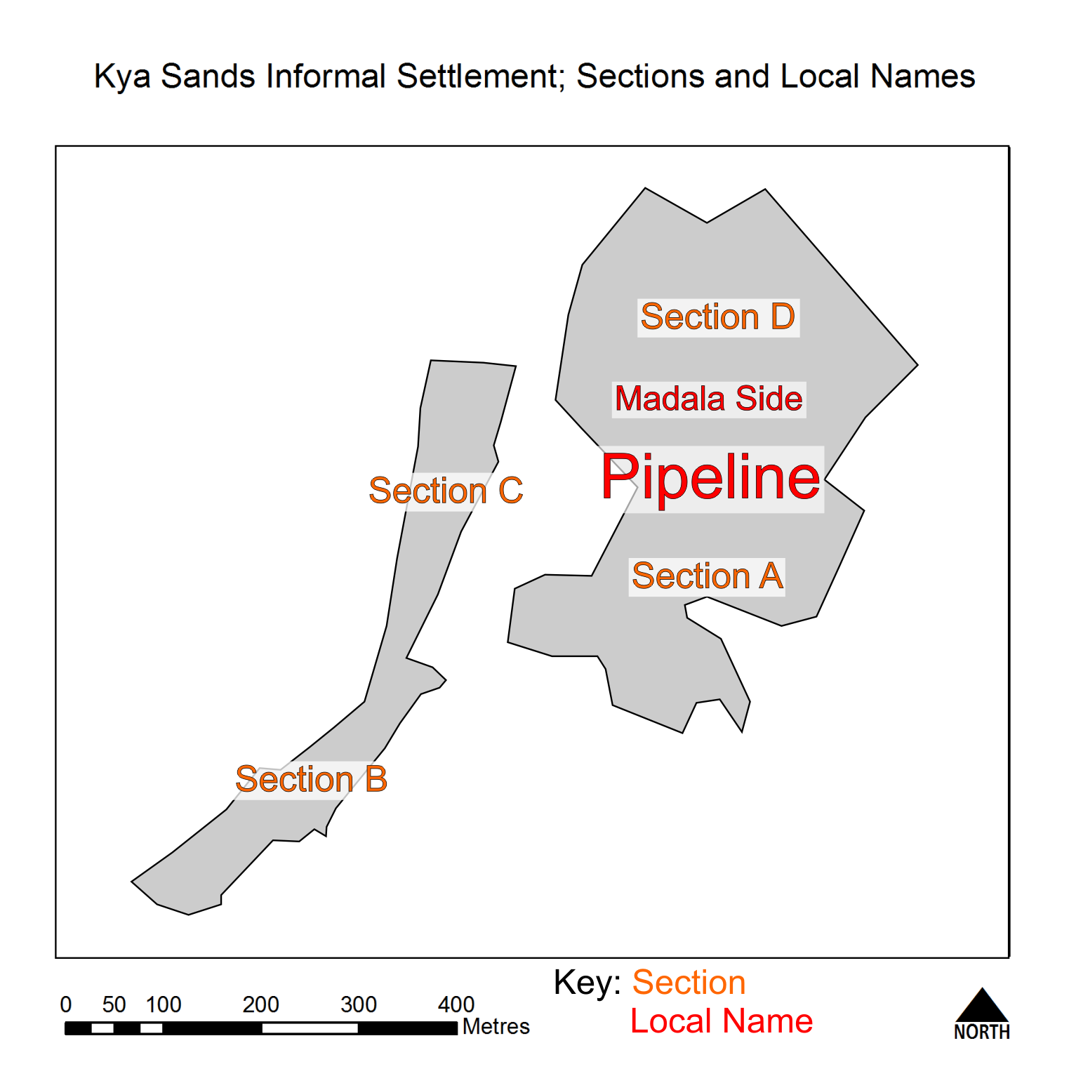 Sections of Kya Sands informal settlement, johannebsurg, south africa